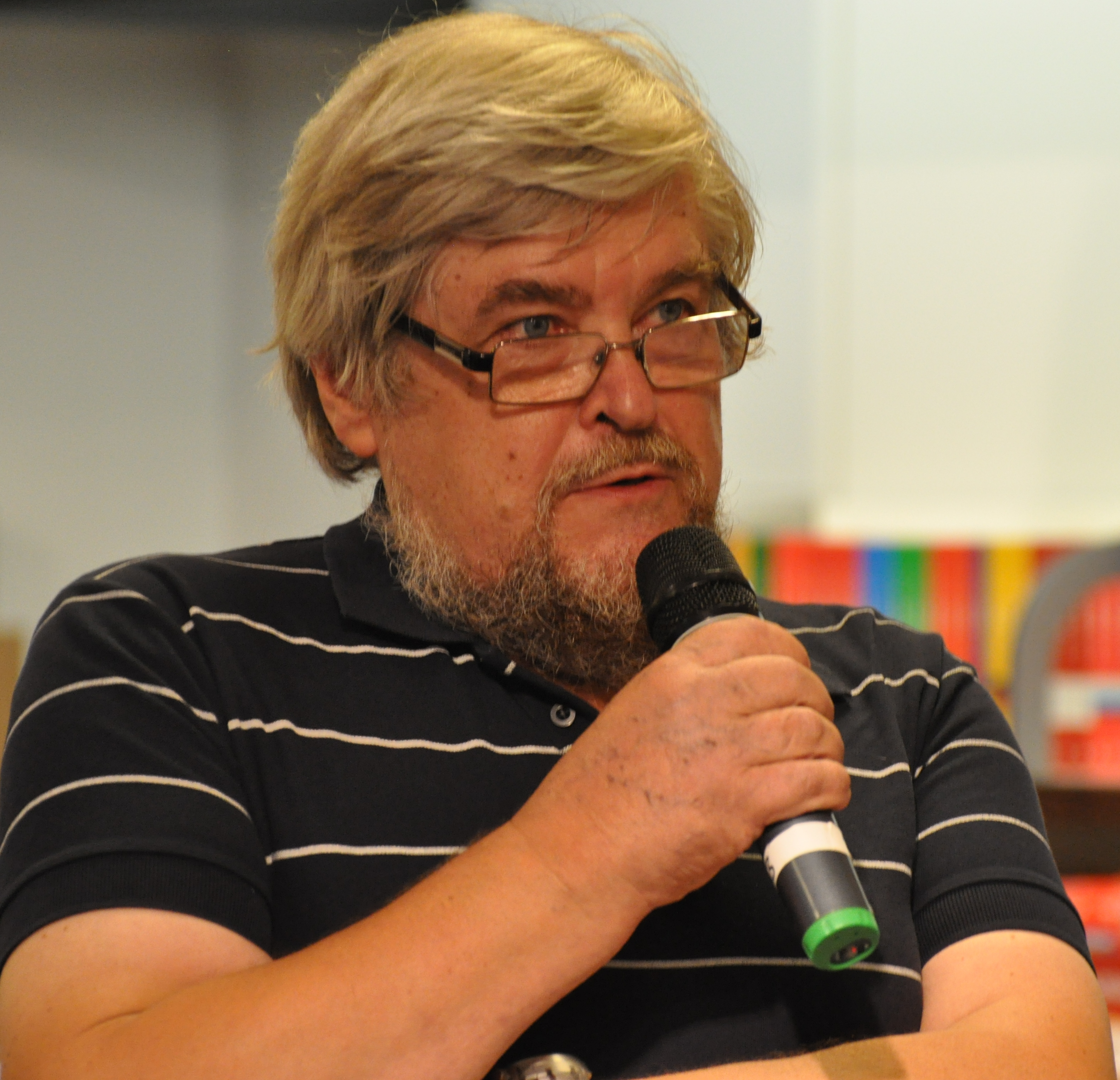 Finnish astronomer Hannu Karttunen on the Night of the Arts in Turku 2010.